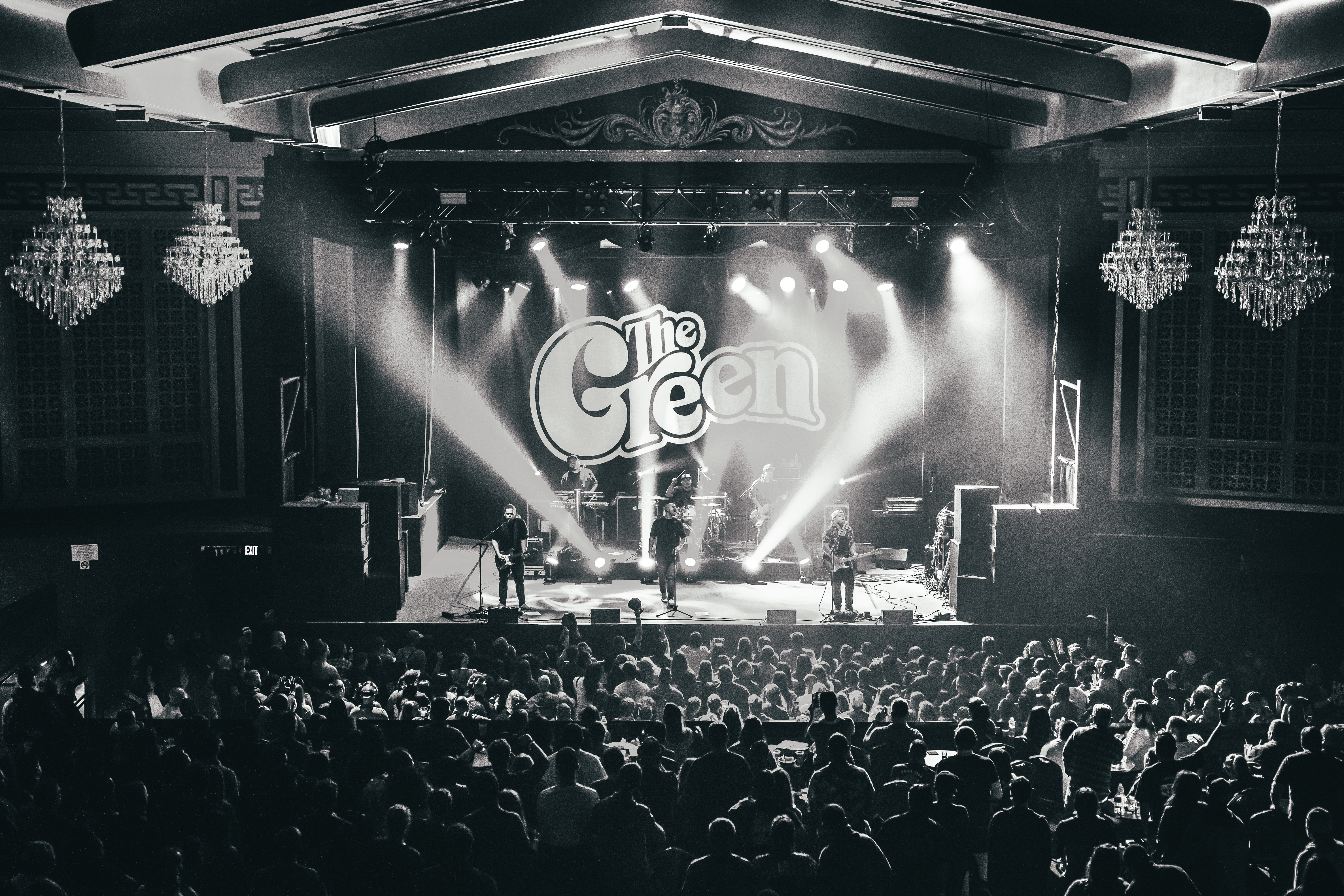 The Green performing live in Berkeley 2020